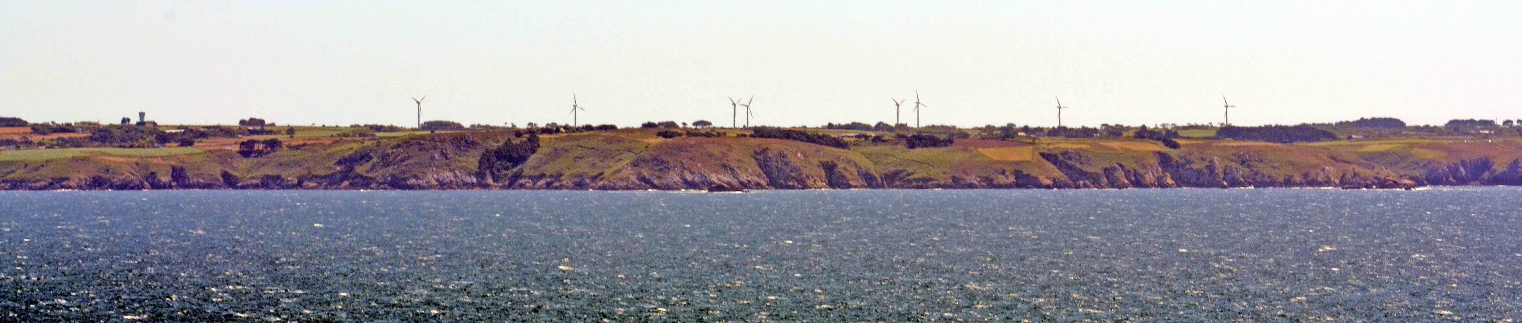 Wind turbines in Britain (ouest of France)